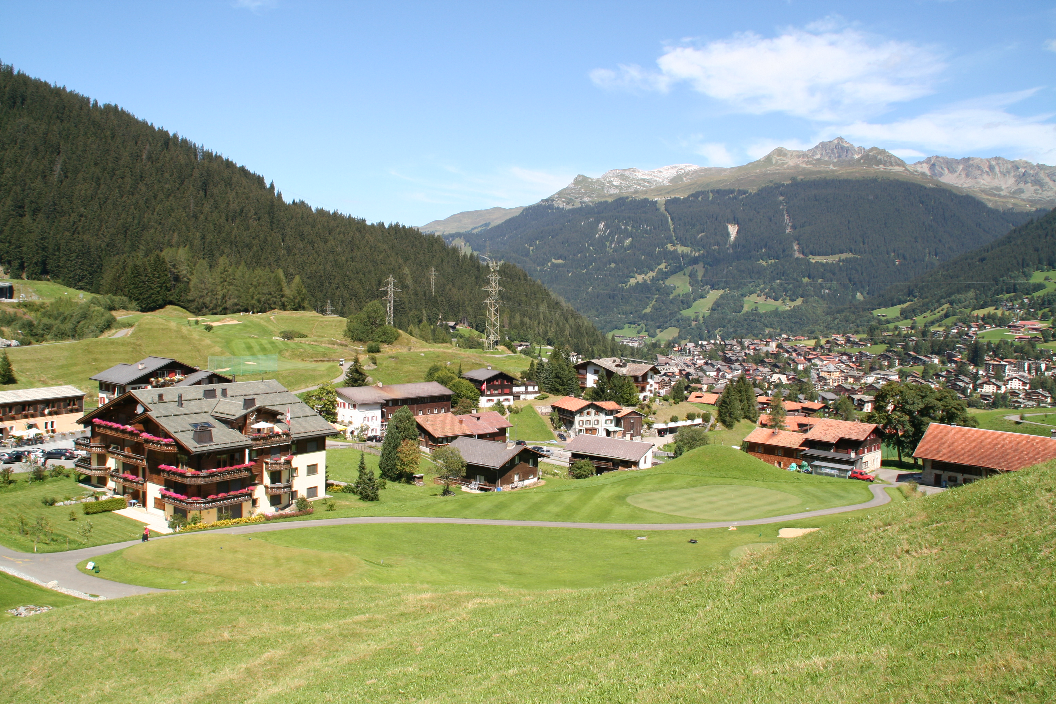 Klosters Selfranga and further the Madrisa Mountain